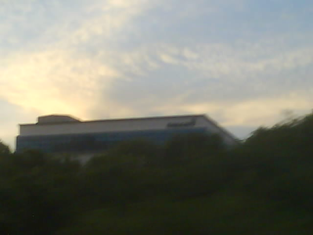 The old headquarter of Channel 9 in Shah Alam, Selangor before move to new headquarter at Bandar Utama, Petaling Jaya, Selangor